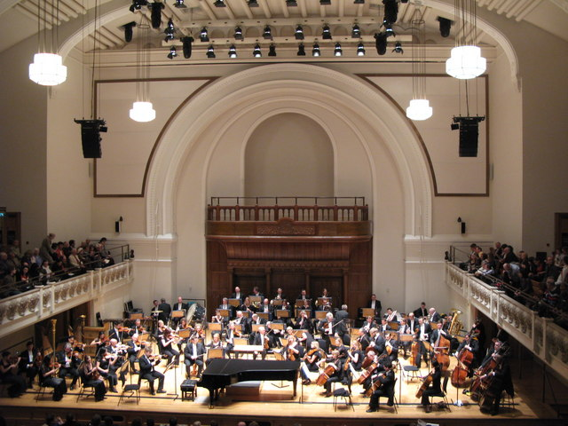 Cadogan Hall, Sloane Terrace, SW1 - interior